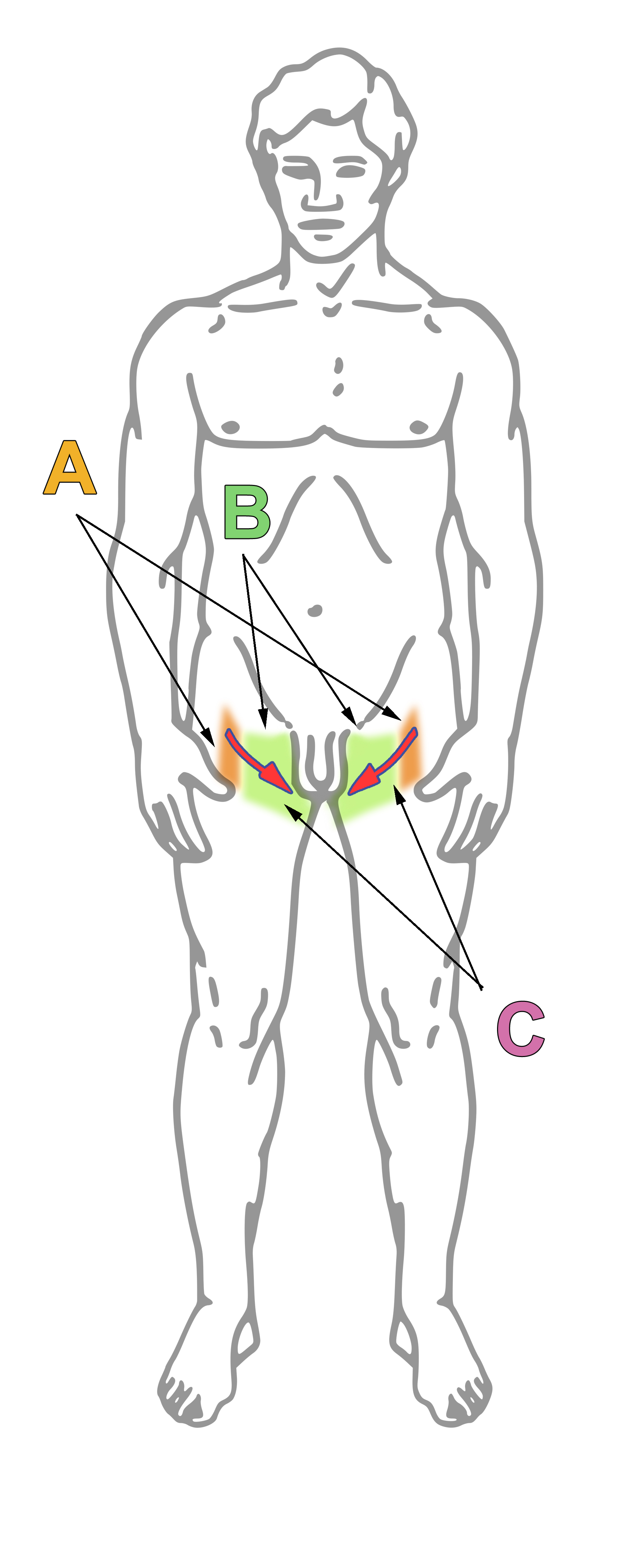 Depiction of the method for inducing the cremasteric reflex in a human male. Area A (in orange) represents the area of sensory fibers controlled by the genitofemoral nerve; area B (in green) represents that controlled by the ilioinguinal nerve; arrow C (in red with blue outline) shows the direction and location where the skin must be stroked to elicit this reflex.